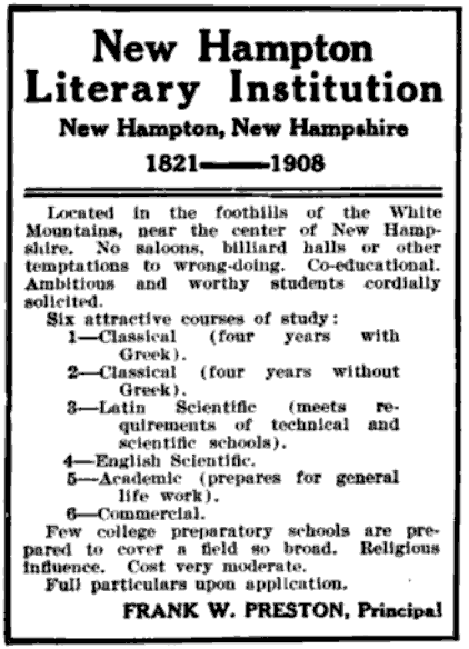 Advertisement for New Hampton Literary Institution, now New Hampton School, a boarding school in Derry, New Hampshire